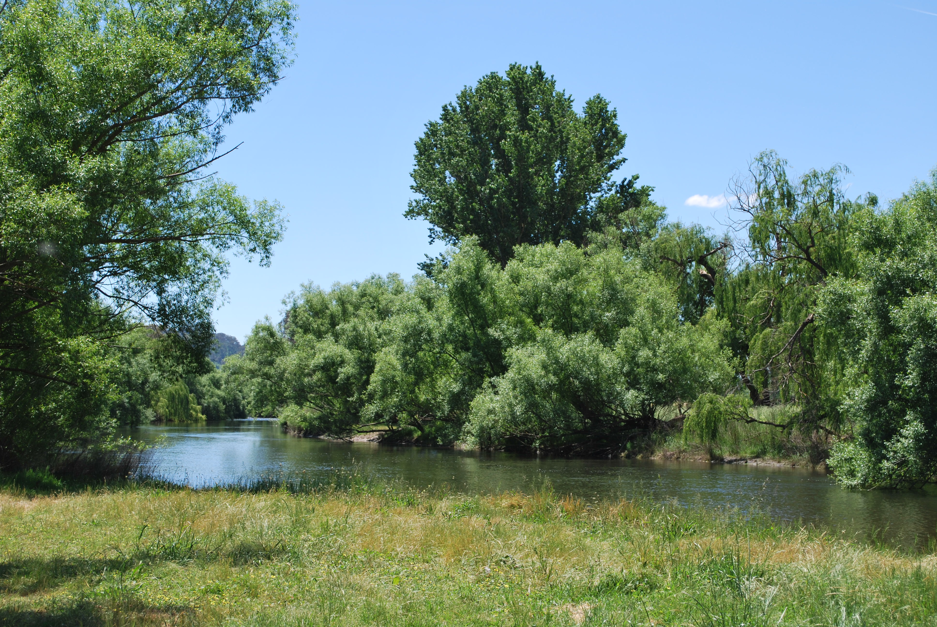 Kiewa River at Keegan's Bridge picnic area at Upper Gundowring, Victoria